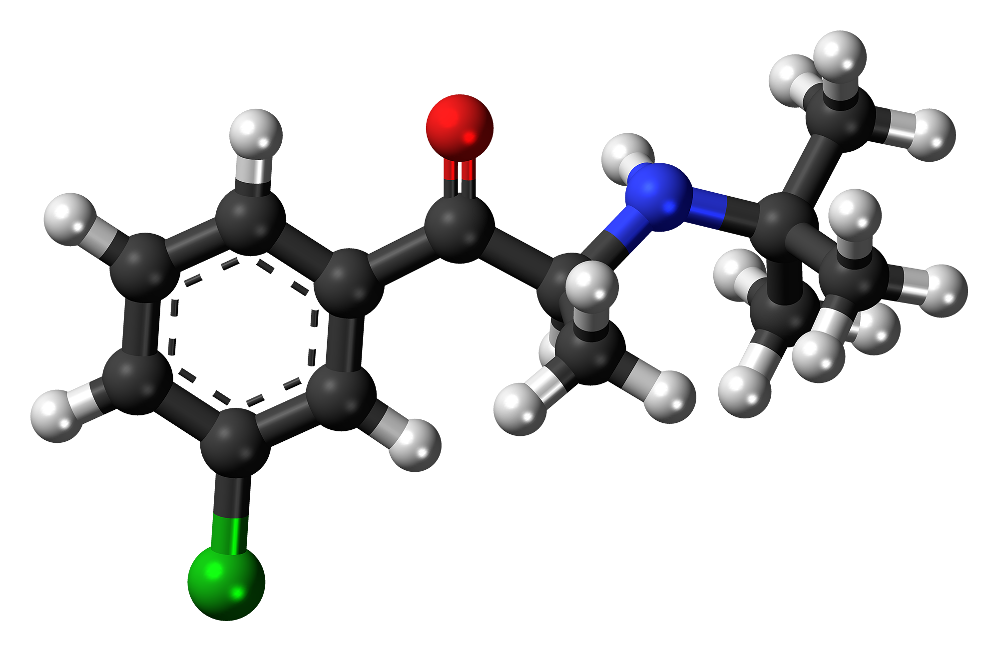 Ball-and-stick model of the bupropion molecule, an antidepressant and smoking cessation drug. Color code: Carbon, C: black Hydrogen, H: white Oxygen, O: red Nitrogen, N: blue Chlorine, Cl: green